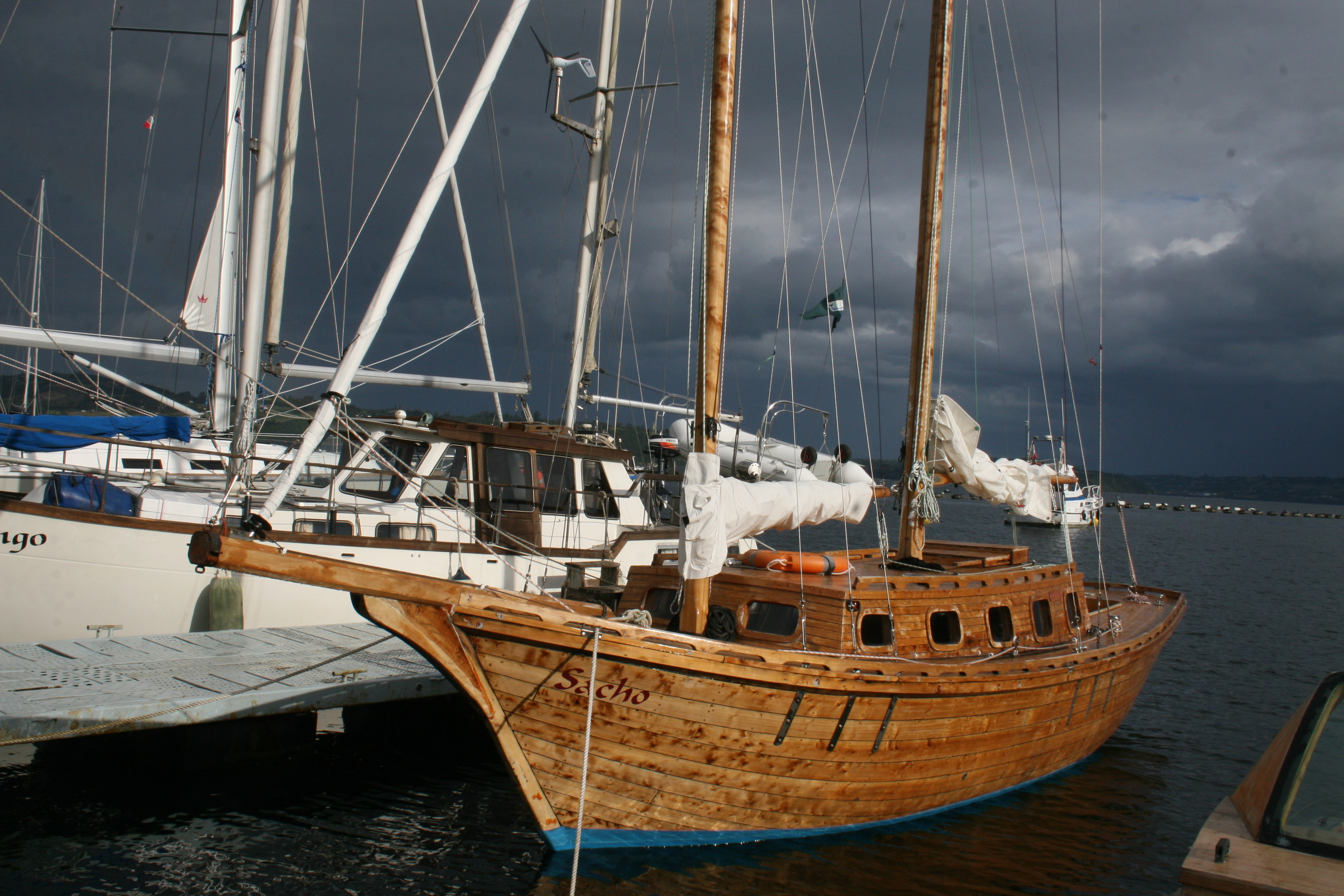 Chiloe's temperate weather